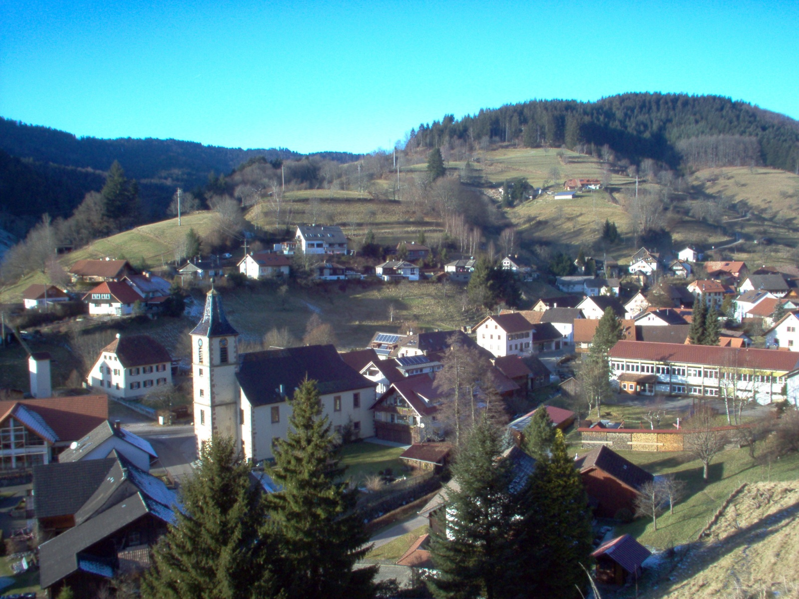 Wies, Germany